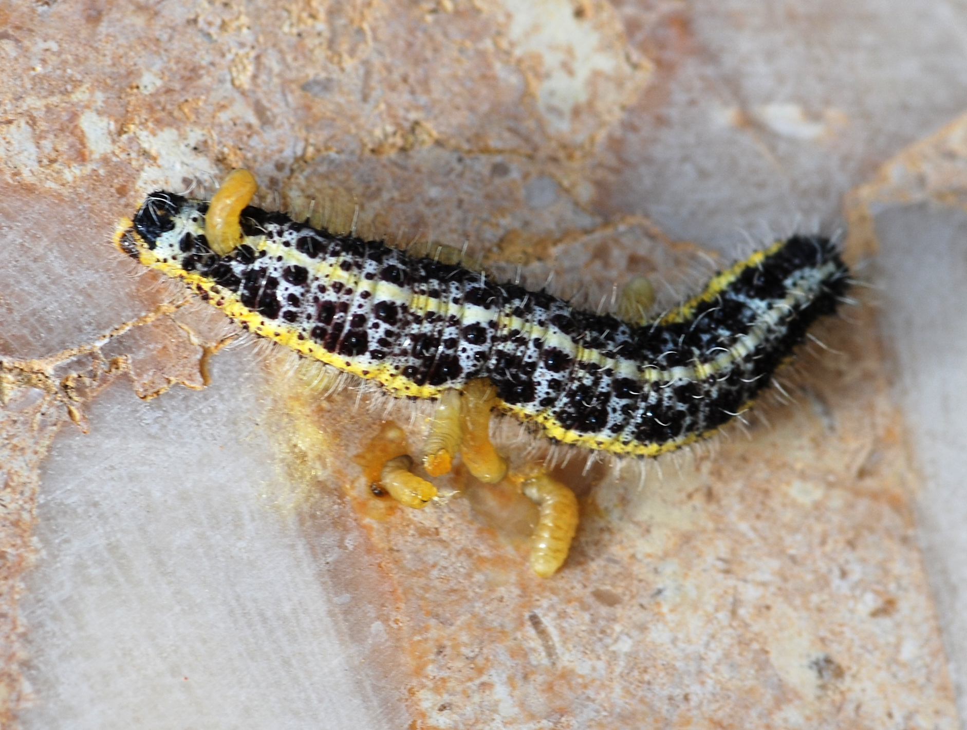 Larvae of the parasitoid wasp Apantales glomeratus emerging from their host, a caterpillar of a Pieris brassicae butterfly. The eggs were laid inside the caterpillar.